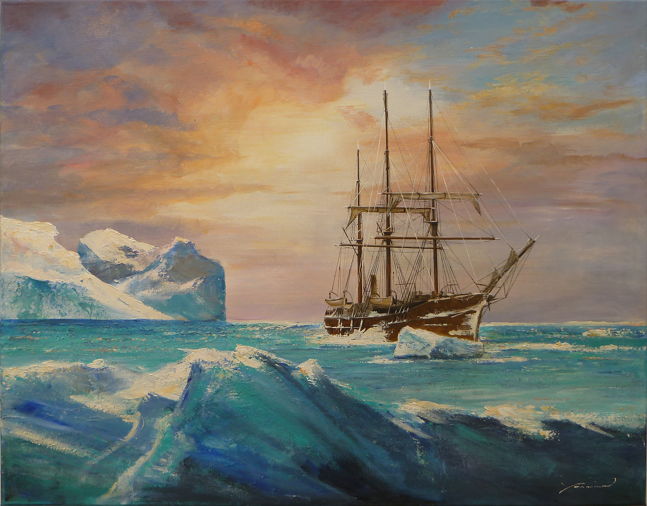 Painting of the RV Belgica (1884) by Yasmina (1949- ), a Belgian painter specialized in marines and depictions of tall ships